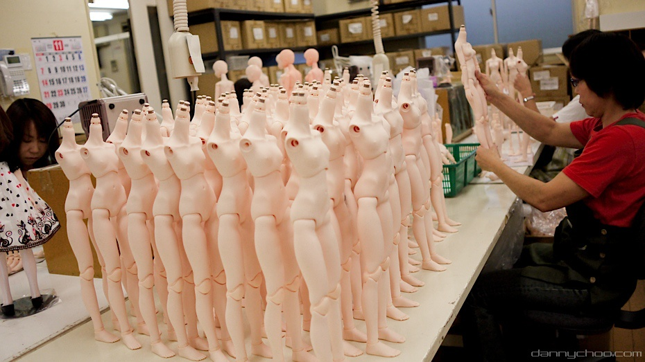 Doll bodies by Obitsu Plastic Manufacturing Co., Ltd. (Japan) being assembled.